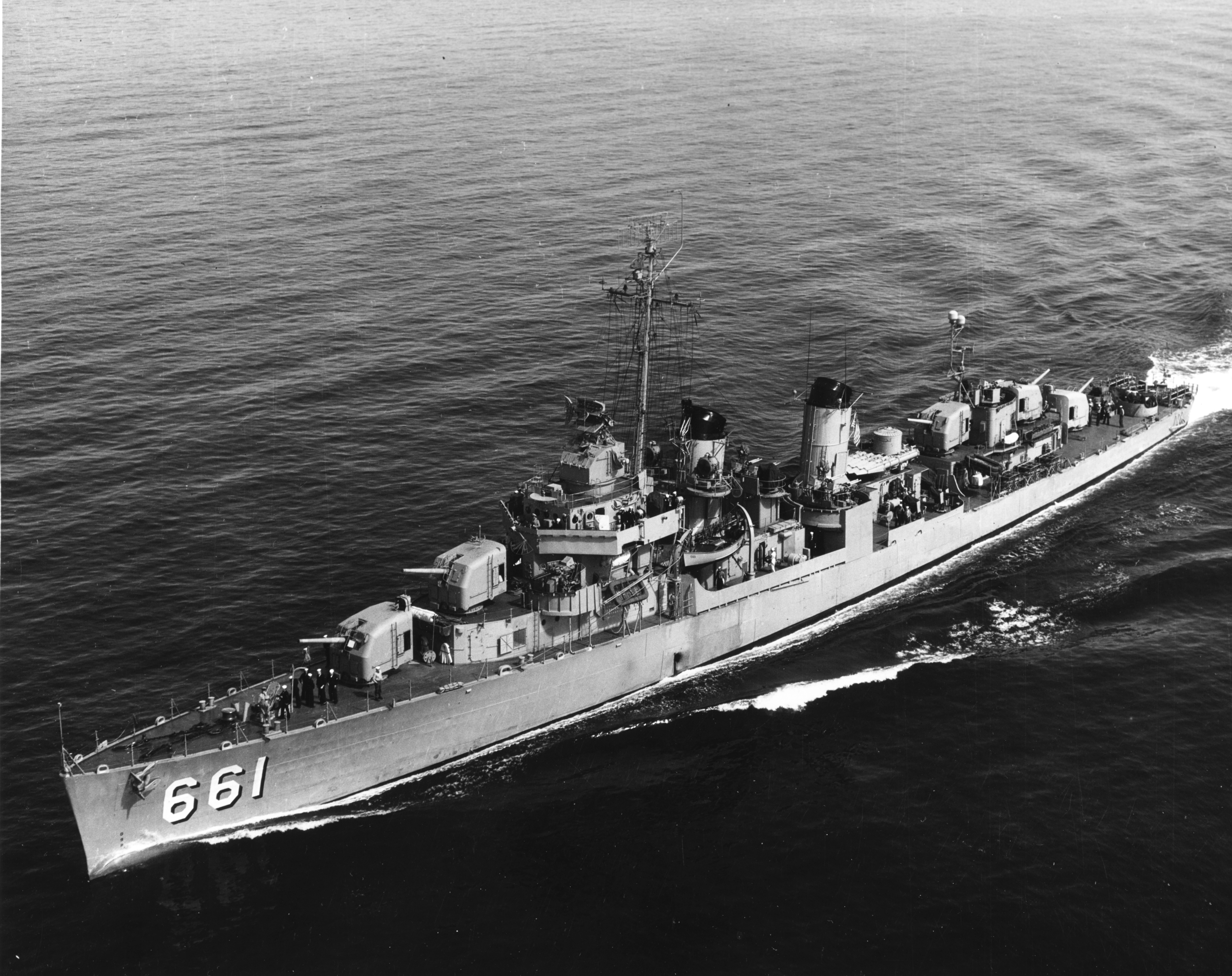 The U.S. Navy destroyer USS Kidd (DD-661) underway at the time she was recommissioned for Korean War service, circa March 1951.